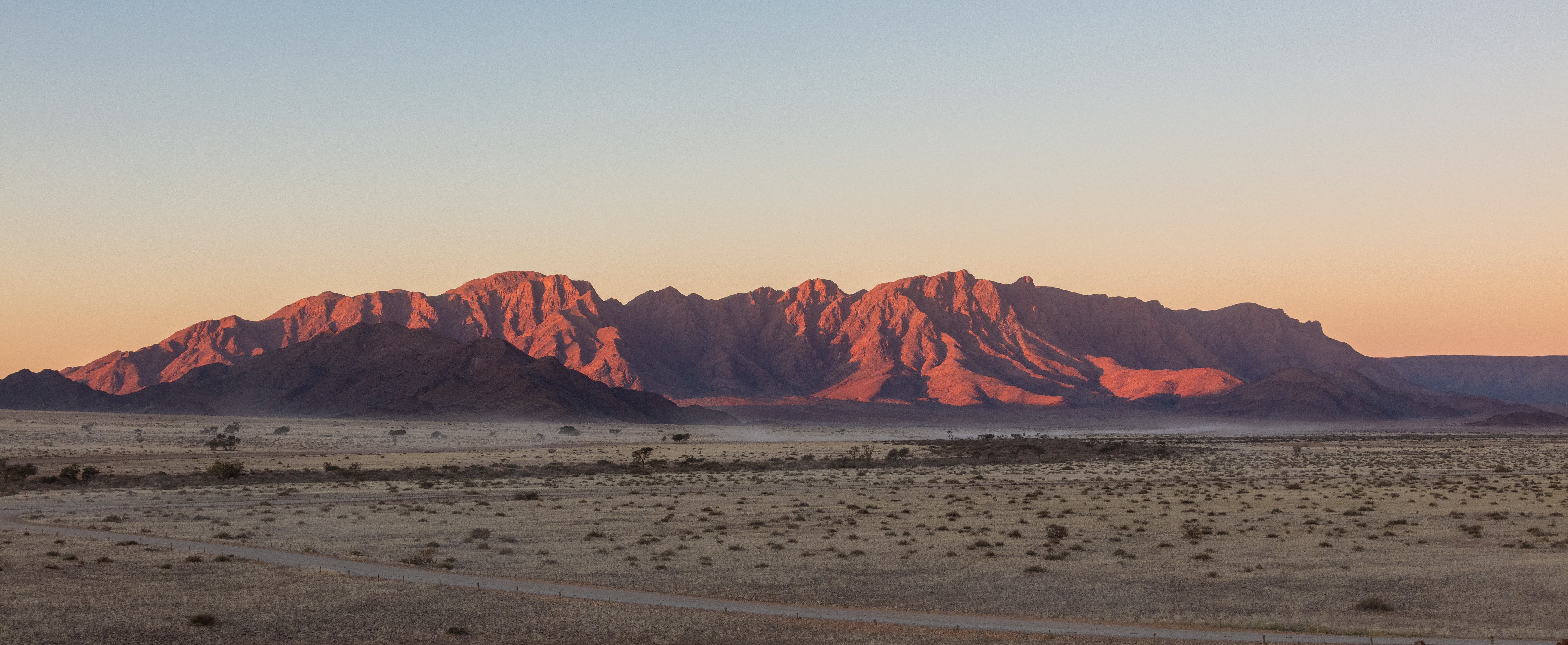 Sunset in the Namib desert, Namibia